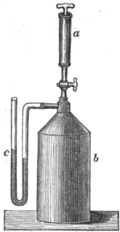 Original design of the nepheloscope by Epsy